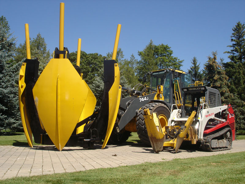 Two different (big and small) Dutchman Tree Spades (manufactured by the Canadian company Dutchman Industries) on a John Deere 744 J wheel loader and on a Takeuchi TL 130 tracked compact loader